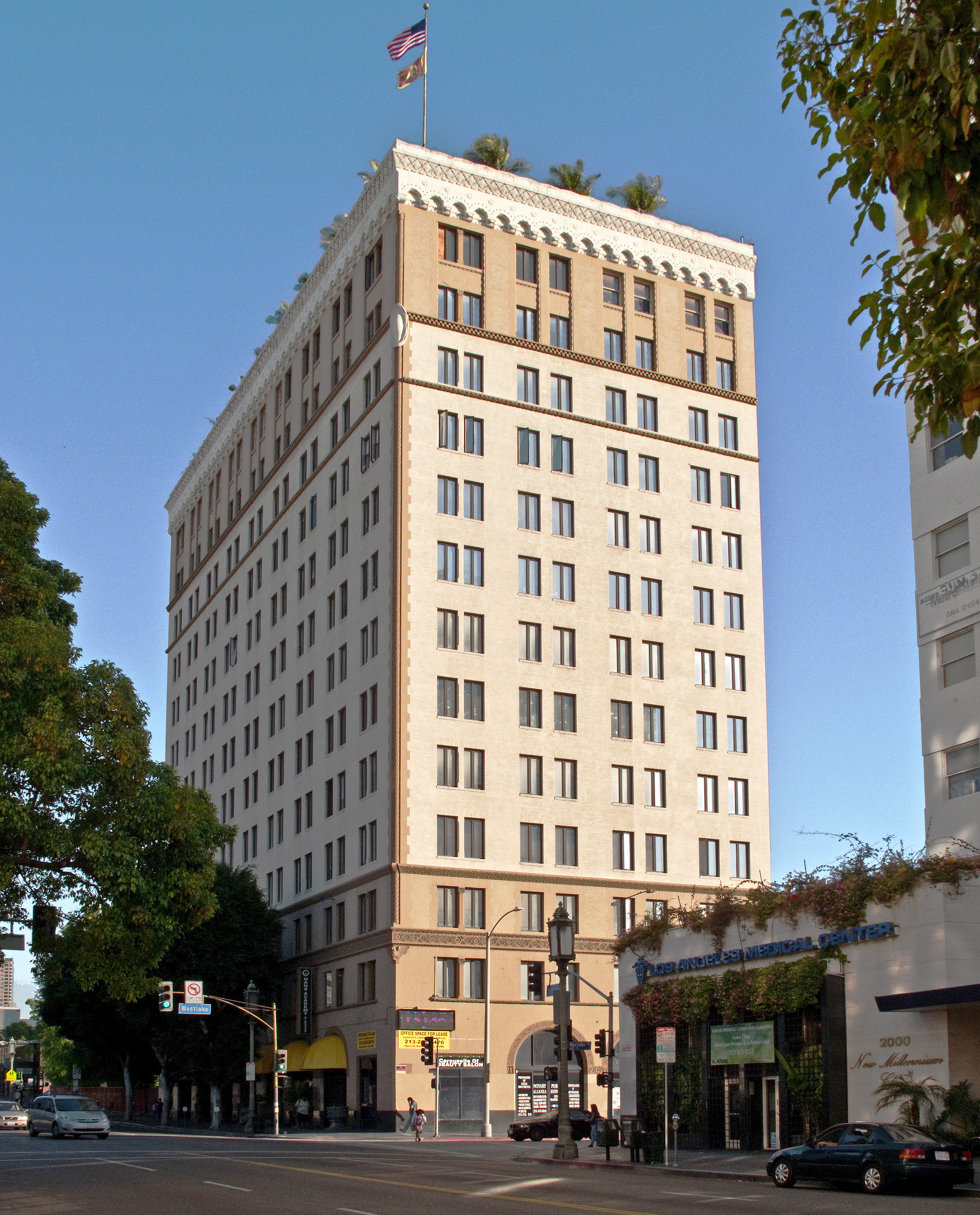 Crocker Bank building, 1926-30 Wilshire Blvd., in the Westlake neighborhood of Los Angeles, California. Note: This has a Los Angeles Historic-Cultural Monument number, #2176, but is not a Los Angeles Historic-Cultural Monument. It has a number from the California Office of Historic Preservation Historical Resources Inventory, State Property Number: 024978.